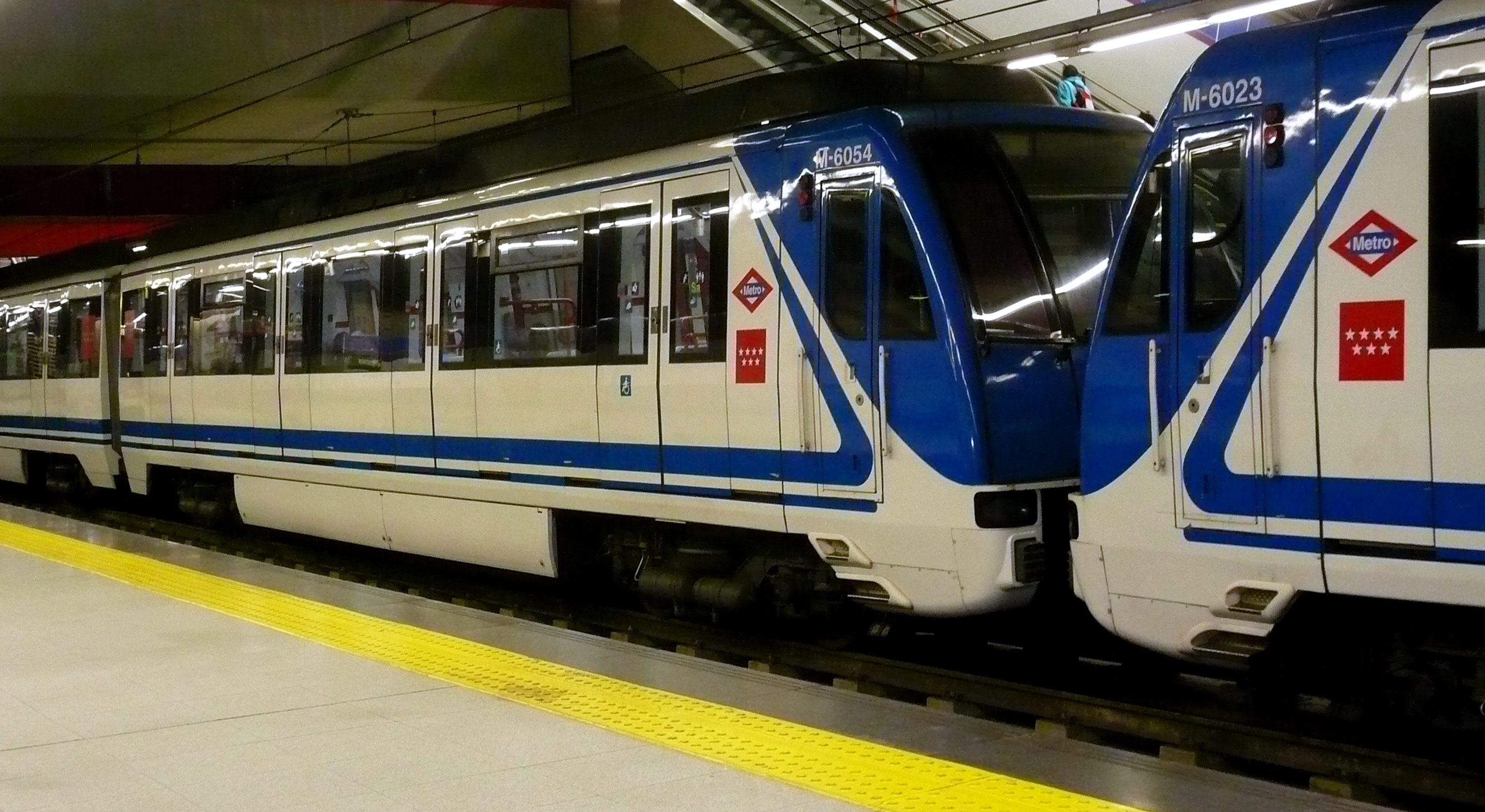 Metro train on line 9 (at Colombia station) of Madrid Metro